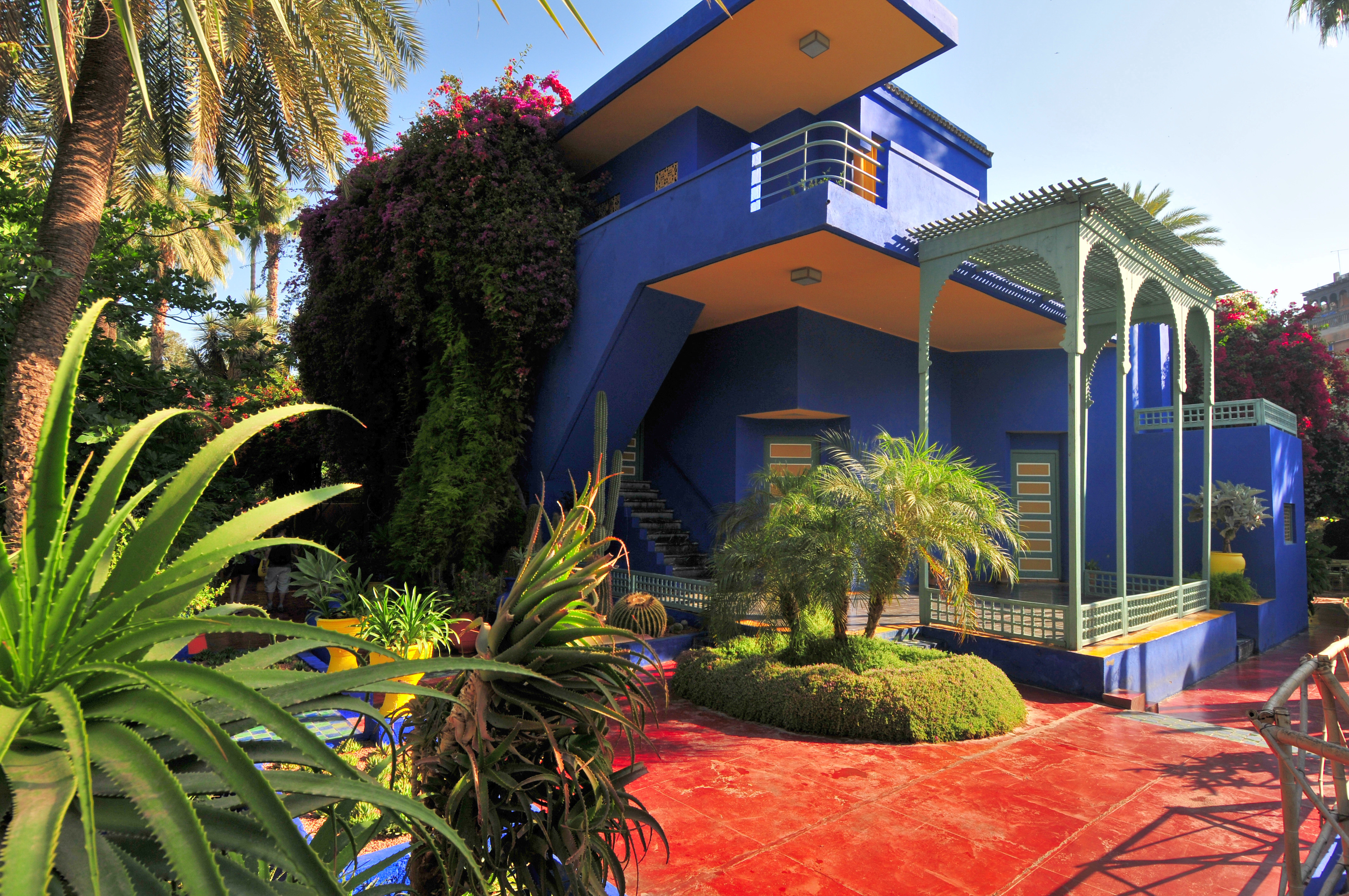 Majorelle Garden, Marrakesh, Morocco